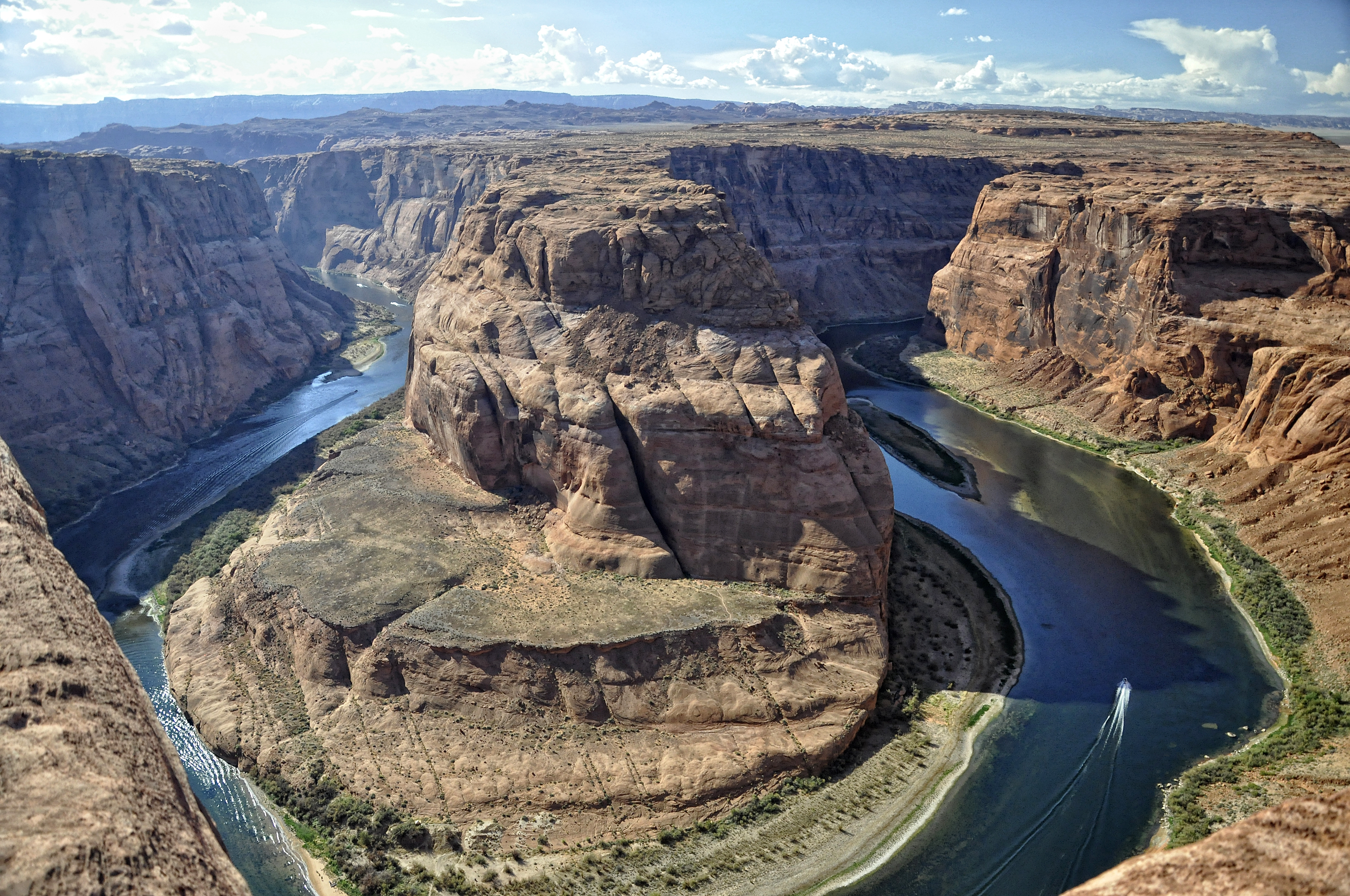 Horseshoe Bend, Page, Arizona